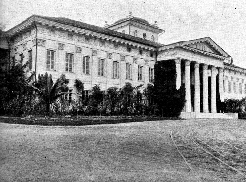 Palace in Dobosnya (Belarus)